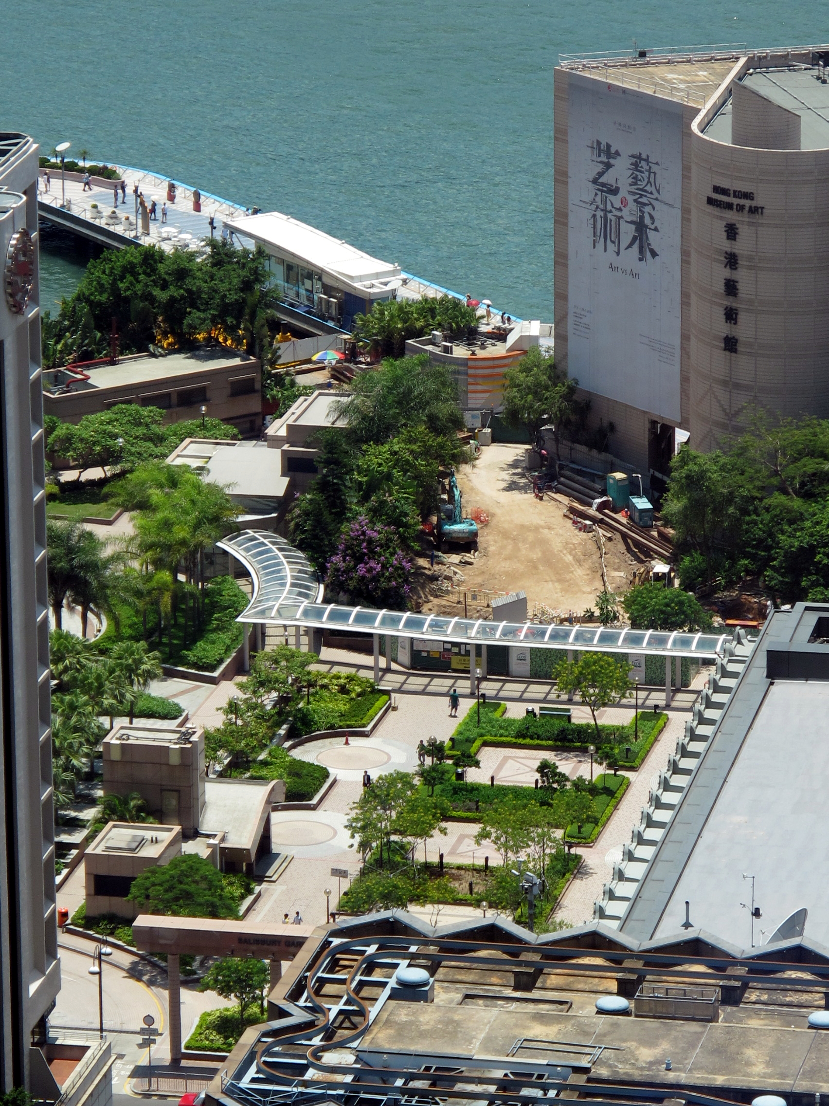 Tsim Sha Tsui Salisbury Garden 梳士巴利花園